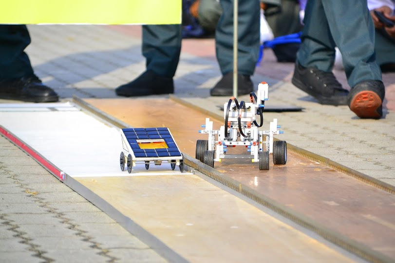 Cekap tenaga 11